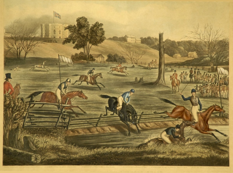 Lady Eveline Marie Alexander - Grand Military Steeple Chase at London Canada, 1845